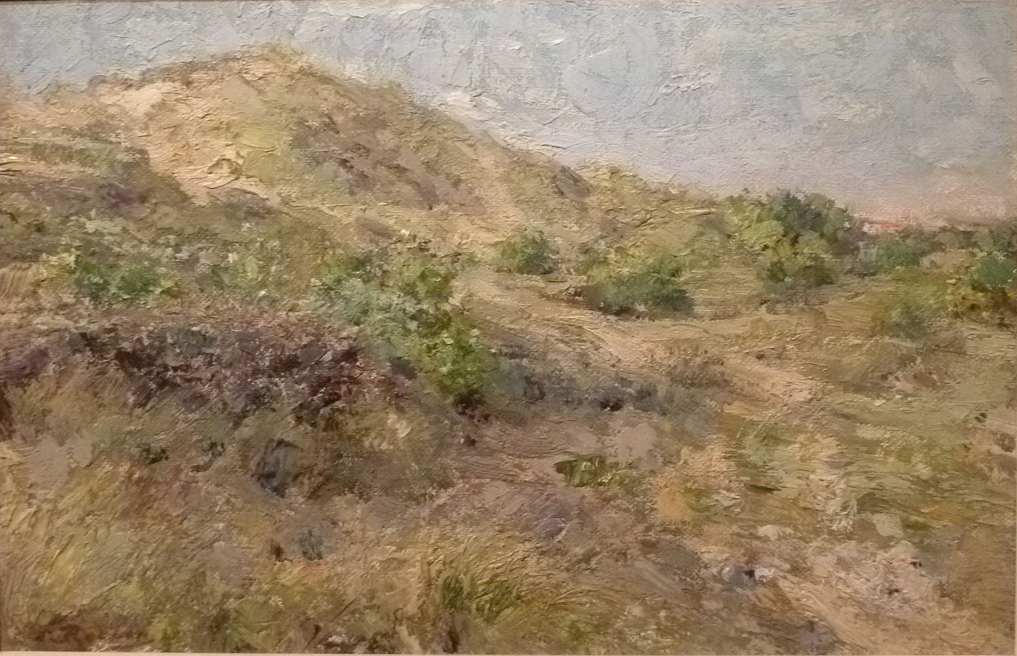 "Dunes", oil on canvas 37 x 55 cm) by the Belgian painter Ernest Rocher (1872-1938); private collection